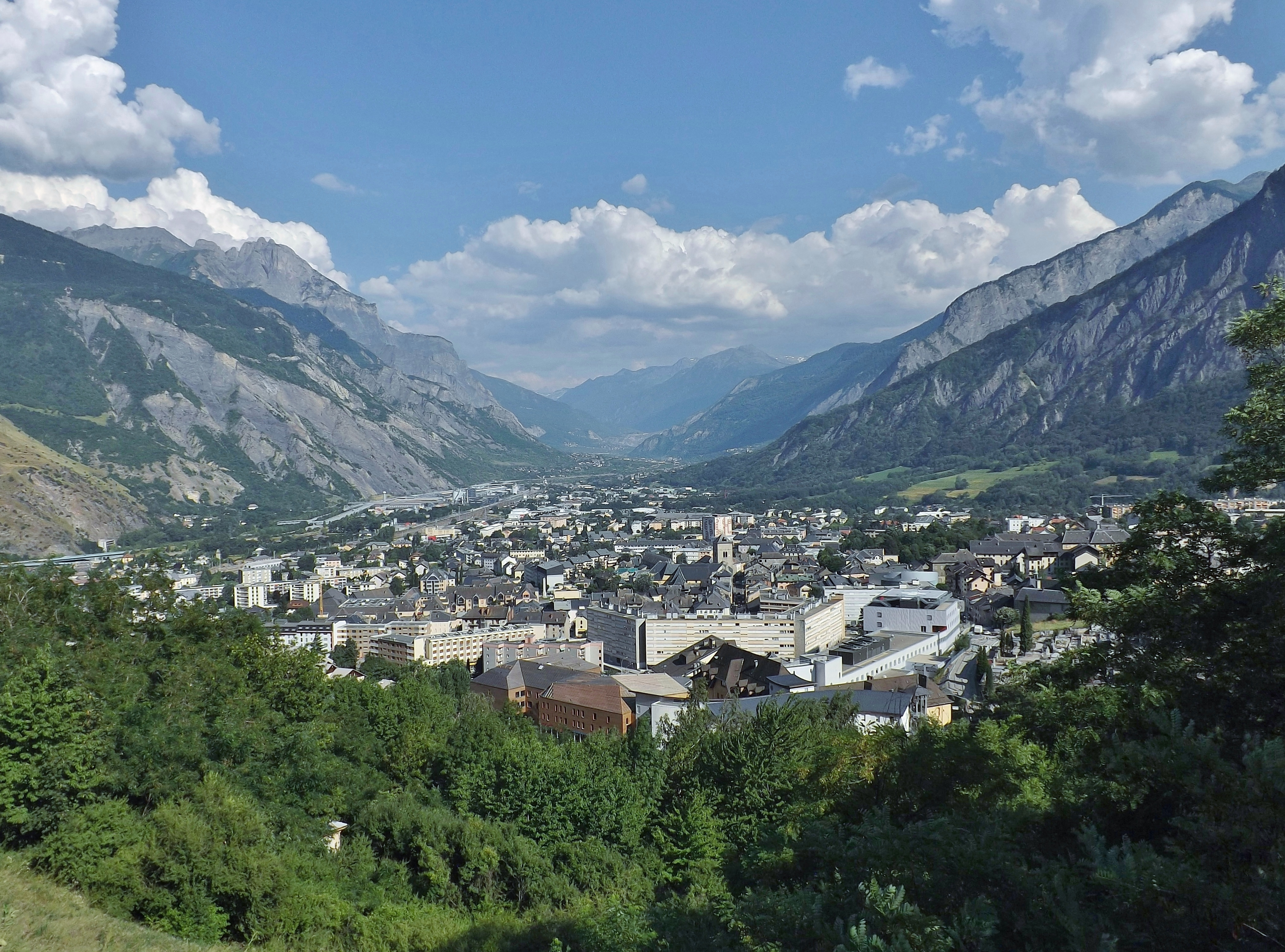 Panoramic sight of the French city of Saint-Jean-de-Maurienne in the Maurienne valley, in Savoie.